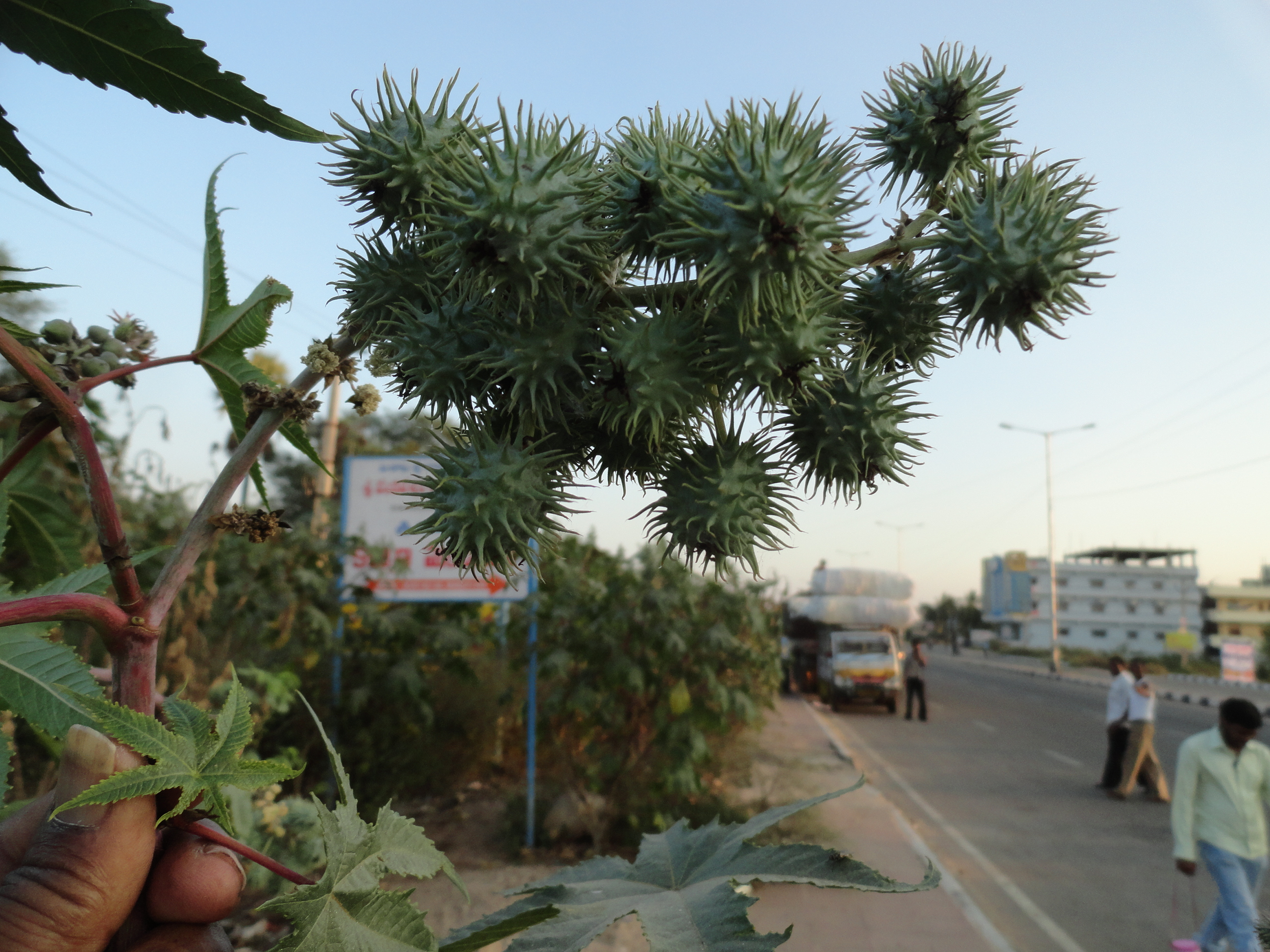 castor oil fruits